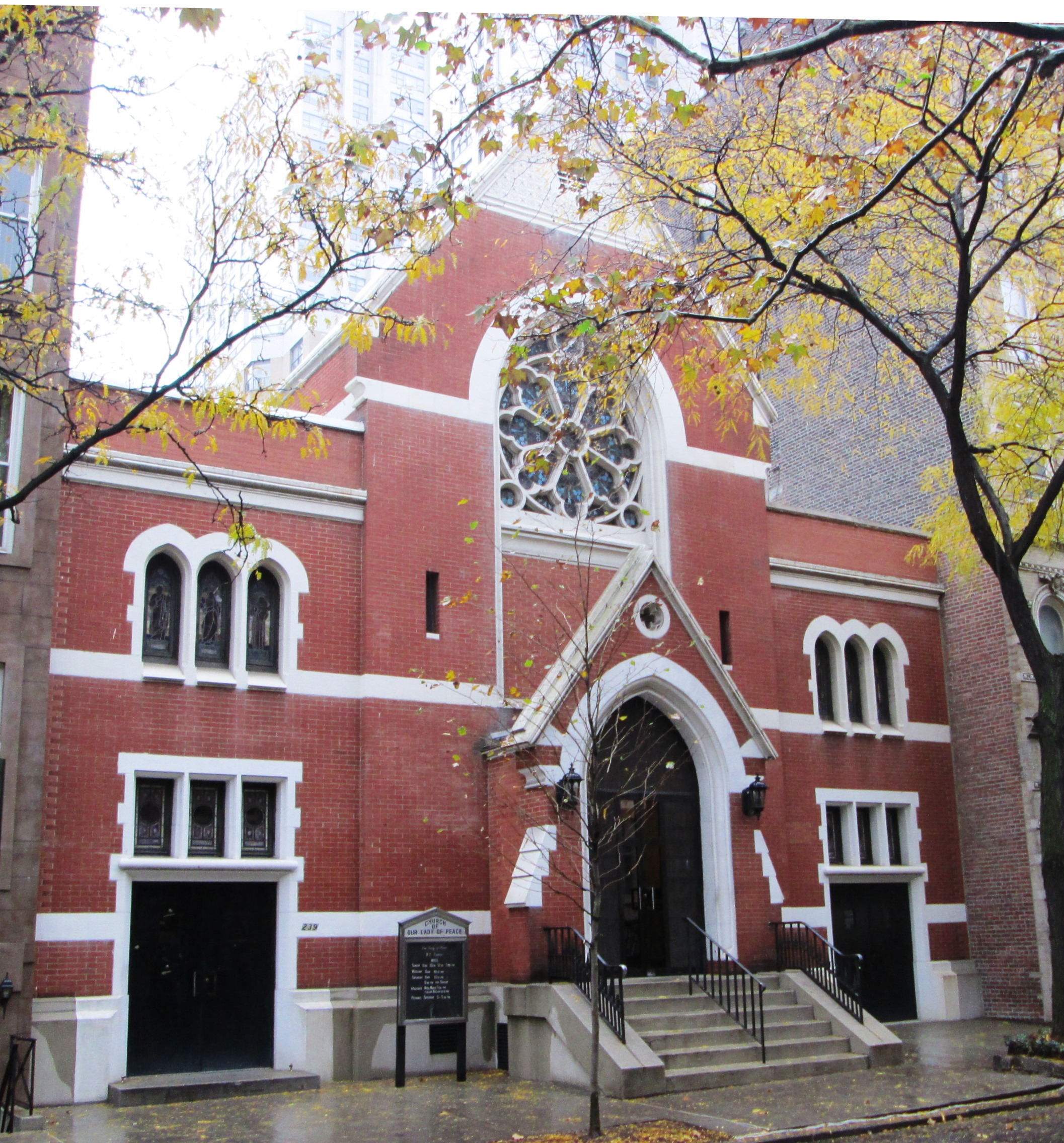 The Roman Catholic Church of Our Lady of Peace, located at 239-241 East 62nd Street between Second and Third Avenues in the Upper East Side neighborhood of Manhattan, New York City, was built in 1886-7 as the Presbyterian Church of the Redeemer, and was designed by Samuel Warner in the Victorian Gothic style. It then became the Bethlehem Church, a Lutheran congregation, before finally becoming the home of the newly formed Italian Madonna della Pace parish in 1918. The church is located in the Treadwell Farm Historic District. (Sources: From Abyssinian to Zion (2004) and Designation Report)